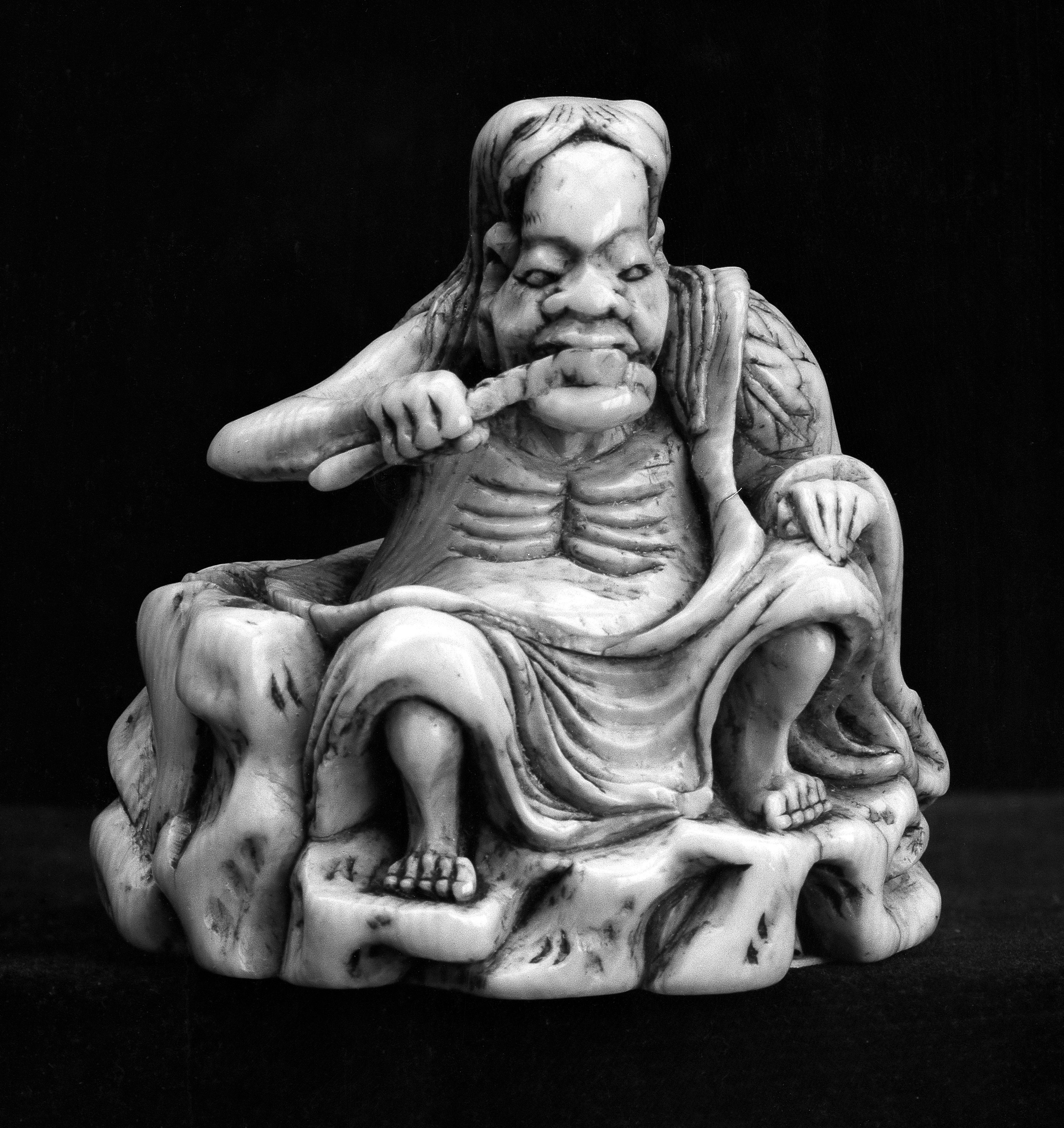 Shinno, God of medicine, squatting and chewing medicinal herb. From Doctor Gunther's collection of Netsuke. Wellcome Images Keywords: japanese carving; Sculpture